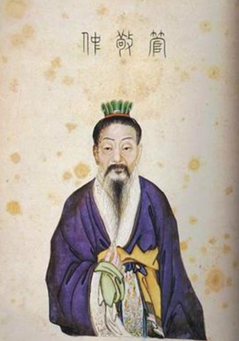 Portrait of Guan Zhong